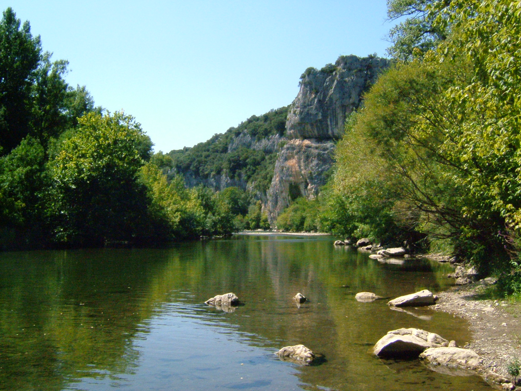 The Cèze river at Génèse, in the commune of Méjannes-le-Clap (postcode 30630 and INSEE 30230), in Gard, France. Looking upstream. The beaches on the right side of the photo are in Saint-Privat-de-Champclos (postcode 30430 and INSEE 30293), Méjannes-le-Clap is on the left side. This is the naturist area in the Gorges de Cèze, mostly owned by the Conseil General. This Espace Naturel Departmental covers 3000 ha of karstic landscape.